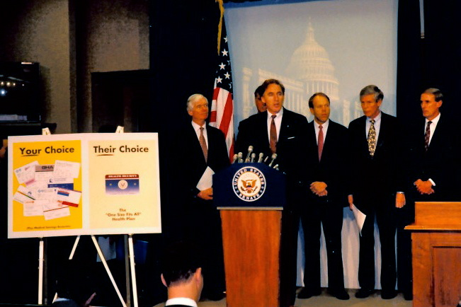 Rep. Stearns offer health cvare bill